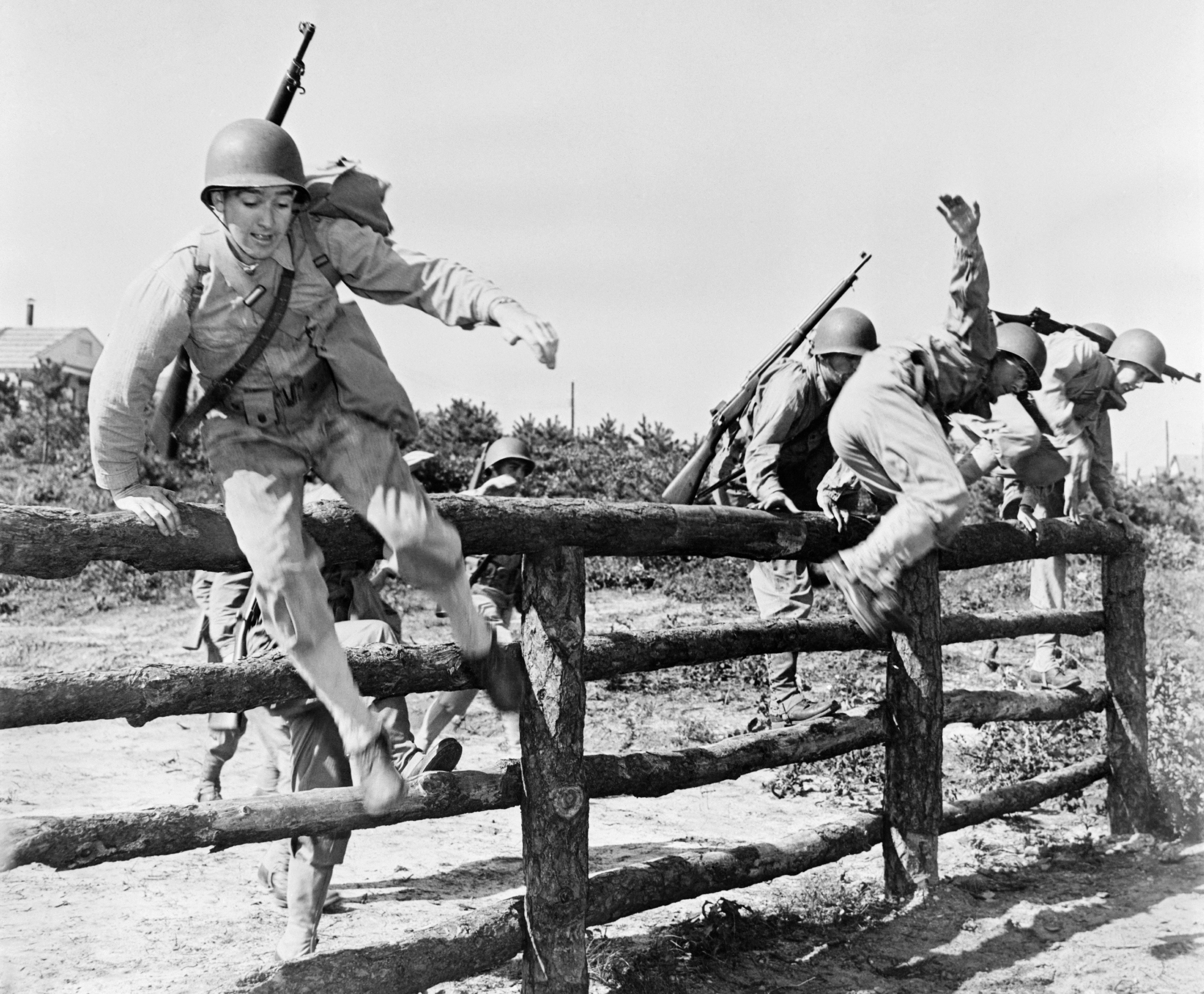 Original caption from American army: "Camp Edwards, Massachusetts. In perfect steeplechase form, these soldiers of the anti-aircraft training center fling themselves over the five-foot rail fence. Par for the course is three and a half minutes".